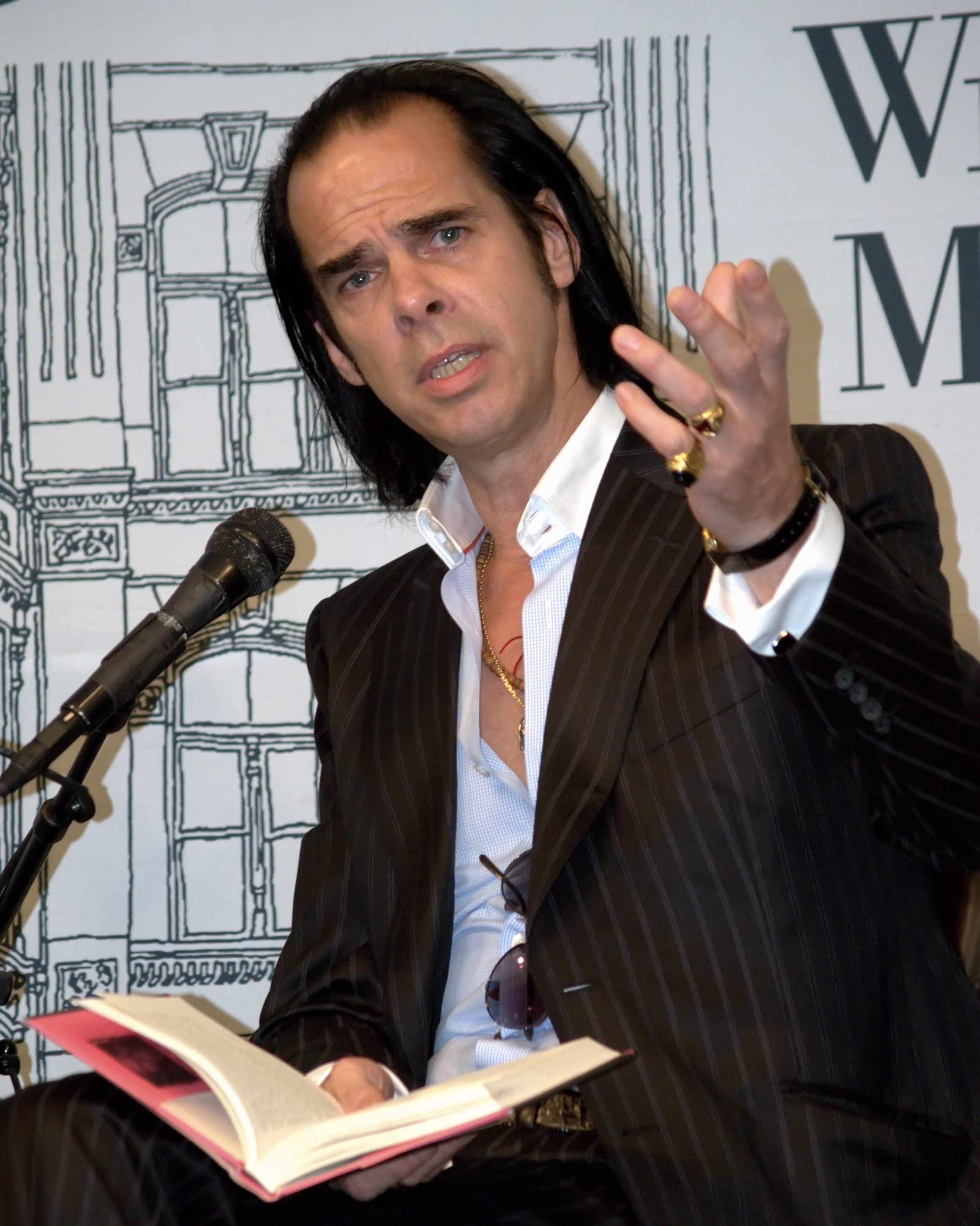 Nick Cave at the Union Square Barnes & Noble to read from his new book, The Death of Bunny Munro. Photographer's blog post about the photo and event.